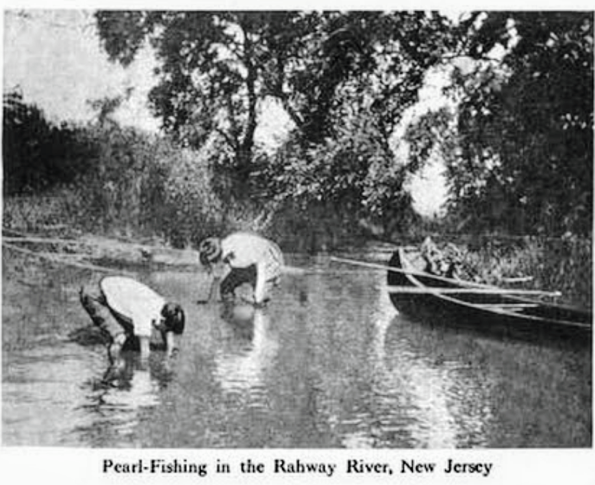 Sara Savage Muller and her husband, Ernest W. Mueller, were naturalists who created articles on various outside recreation in the early 20th century. Her father was Joseph Webber Savage, mayor of Rahway.